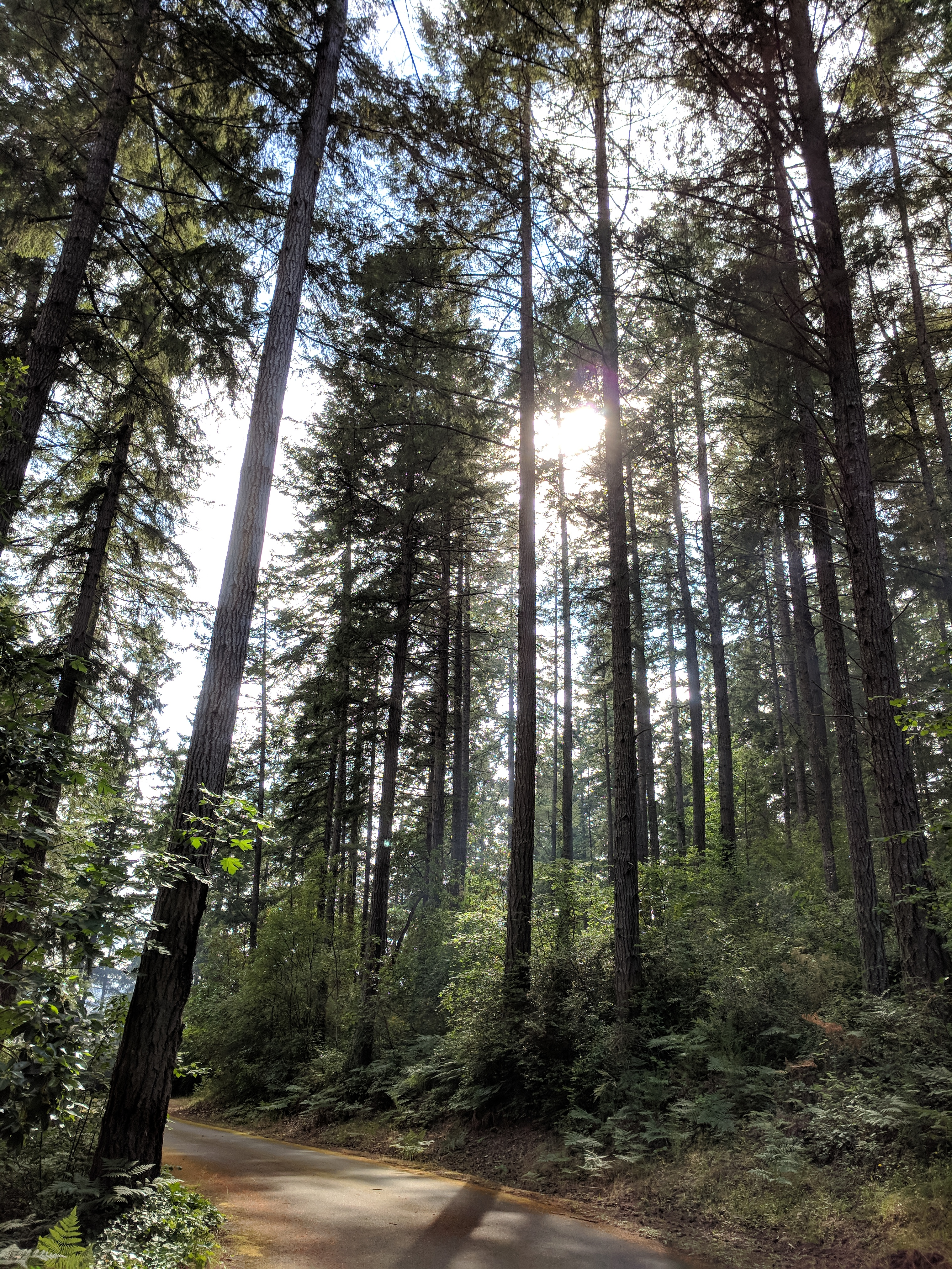 Forest picture taken at Joemma Beach State Park, on Washington state's Key Peninsula. Photo is looking roughly west, on the northwesternmost loop of Bay Road Kp S running through the park.